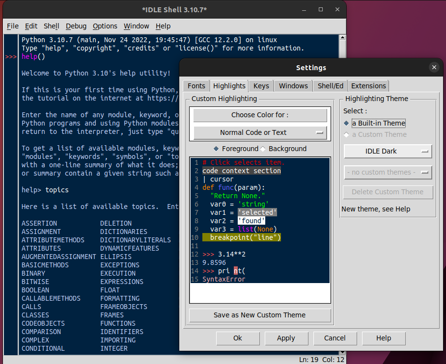 Python's Integrated Development and Learning Environment. IDLE version: 3.8.1. Run in macOS Catalina.